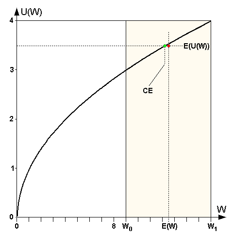 Risk aversion, type 1, case 2